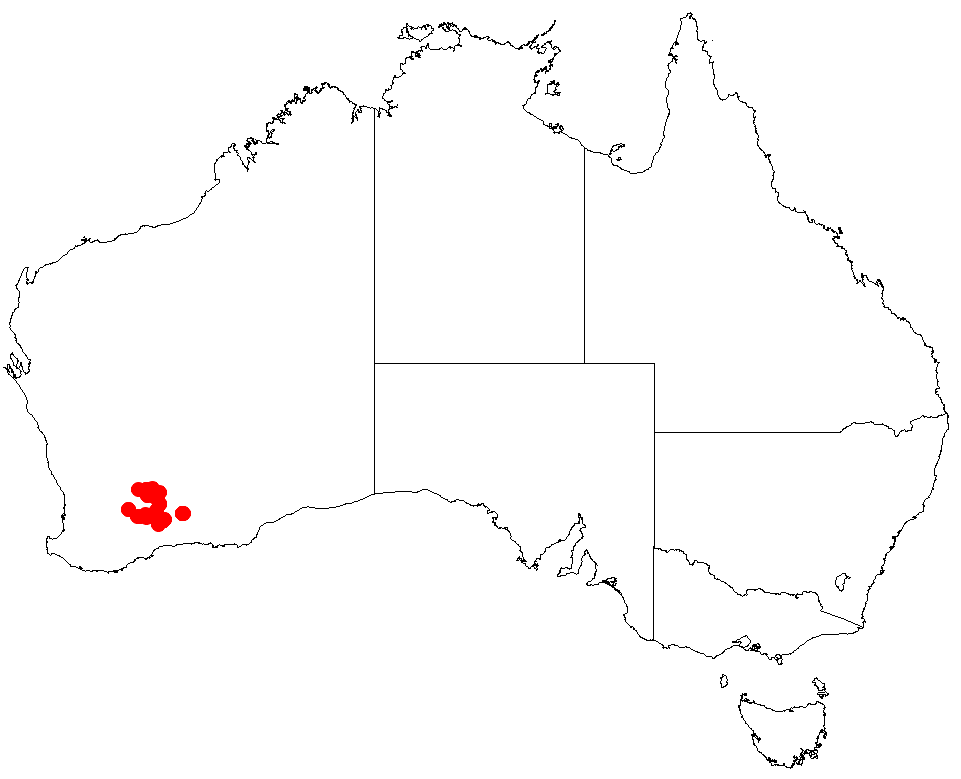 Acrotriche lancifolia Occurrence data from Australasian Virtual Herbarium downloaded 23 November 2018 using